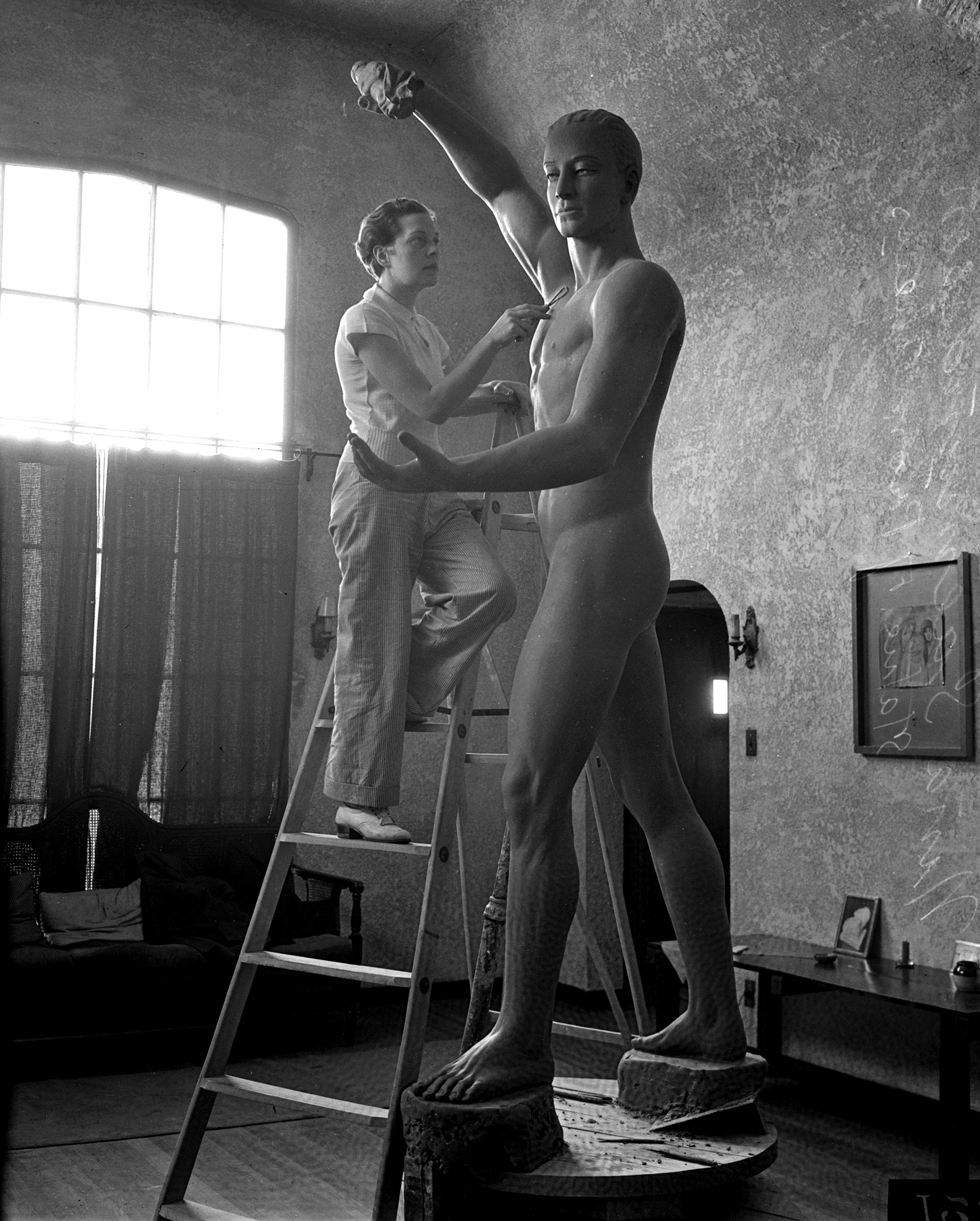 sculptor Nína Sæmundsson (1892-1965) working on her clay model of Prometheus (to be located in Westlake Park [later named MacArthur Park]) in her living room studio at 3557 Oak Glen Drive,[1] Los Angeles, California